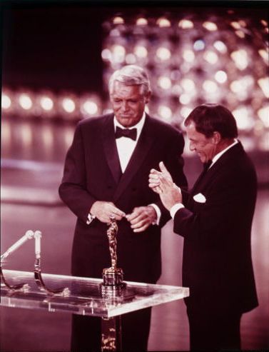 Cary Grant & Frank Sinatra during at the 42th Oscars (1970).